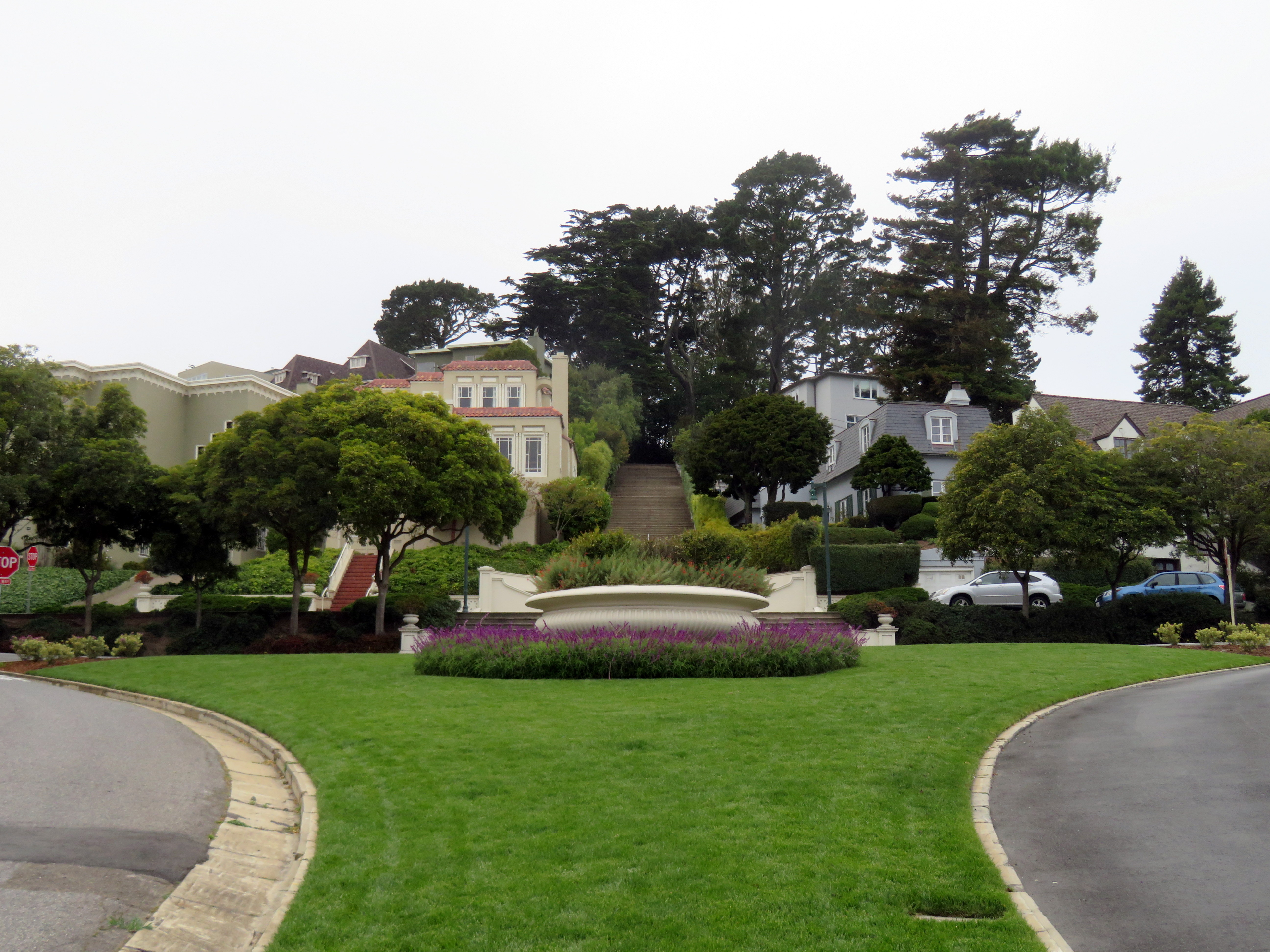 Grand entrance to Forest Hill from Dewey Boulevard in July 2020